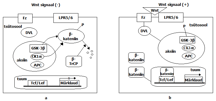 Kanooniline β.kateniinist sõltuv rada. a) Wnt signaalita; b) Wnt signaaliga